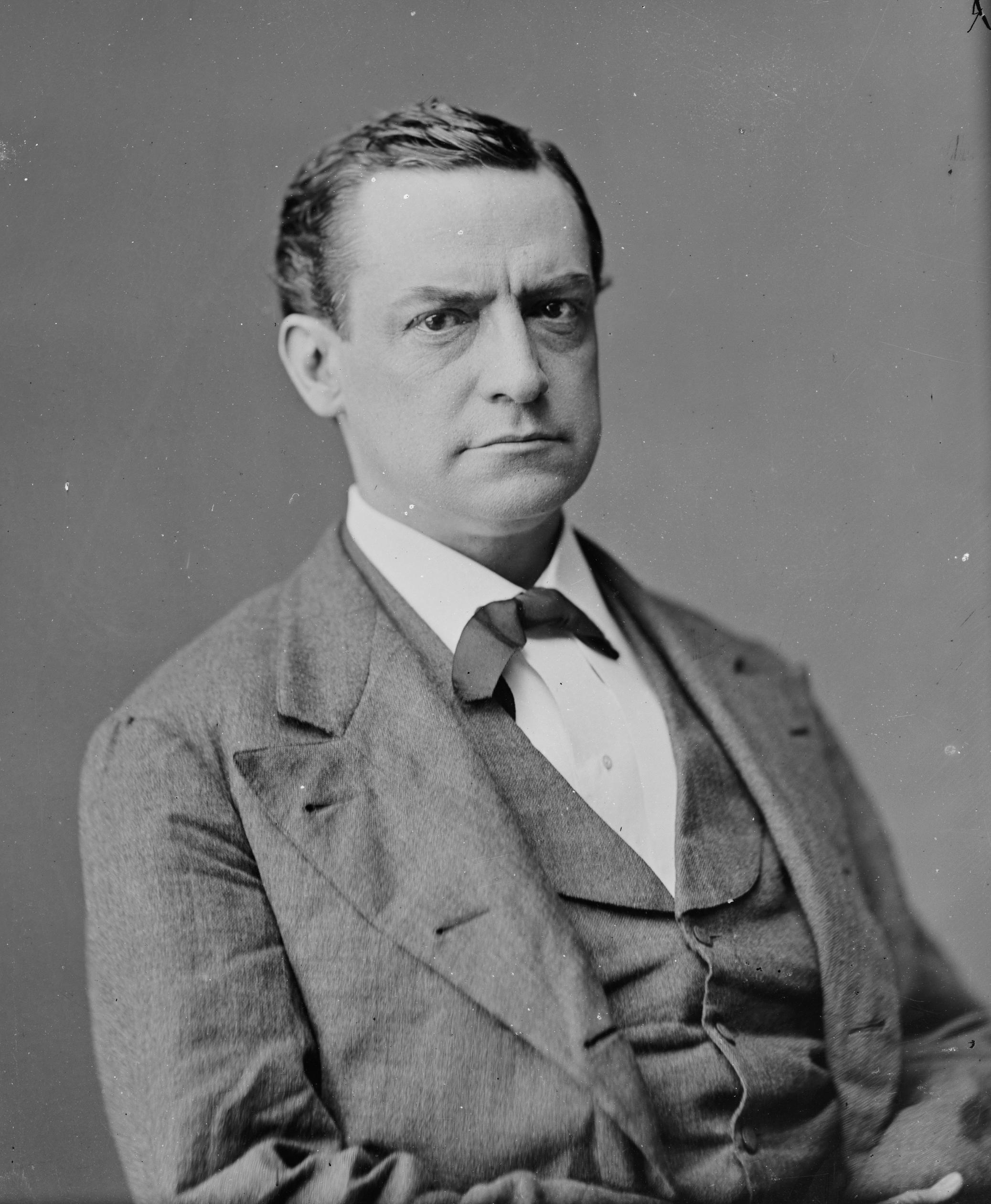 Samuel J. Randall. Library of Congress description: "Randall, Hon. Samuel J. of Pa. Speaker of the H. of R."